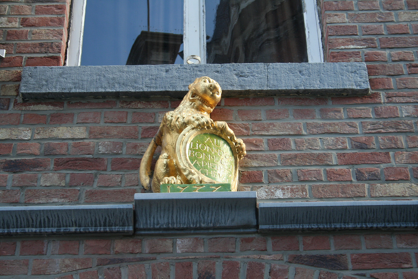 Fosses-la-Ville (Belgium), ruelle Thée Dinant – Stone sign decorated with a lion with the mention «Au Lion d’Or , Bon logis à pied et à cheval, 1737».